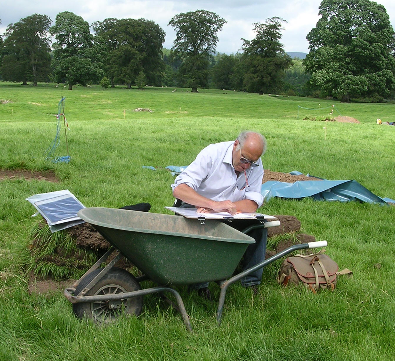 Victor Ambrus (born László Győző Ambrus, 19 August 1935); illustrator of history, folk tale, and animal story books